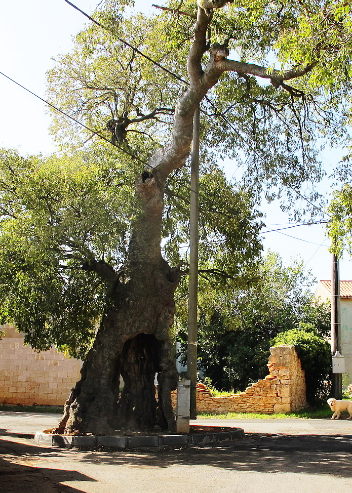 About 450.years old "Ladonja" (Celtis australis) in the village of Muntic, in Istria.